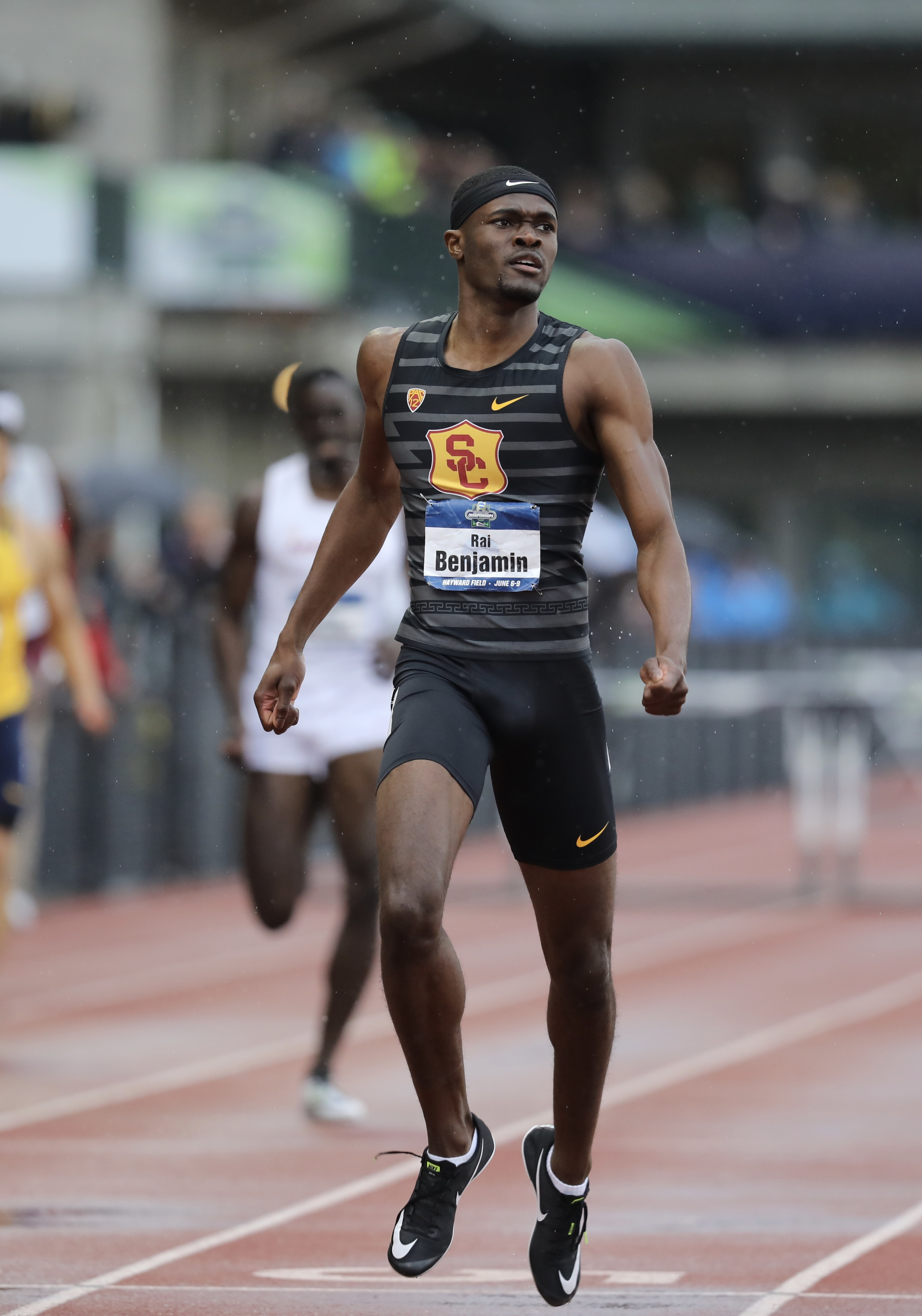 2018 NCAA Division I Outdoor Track and Field Championships